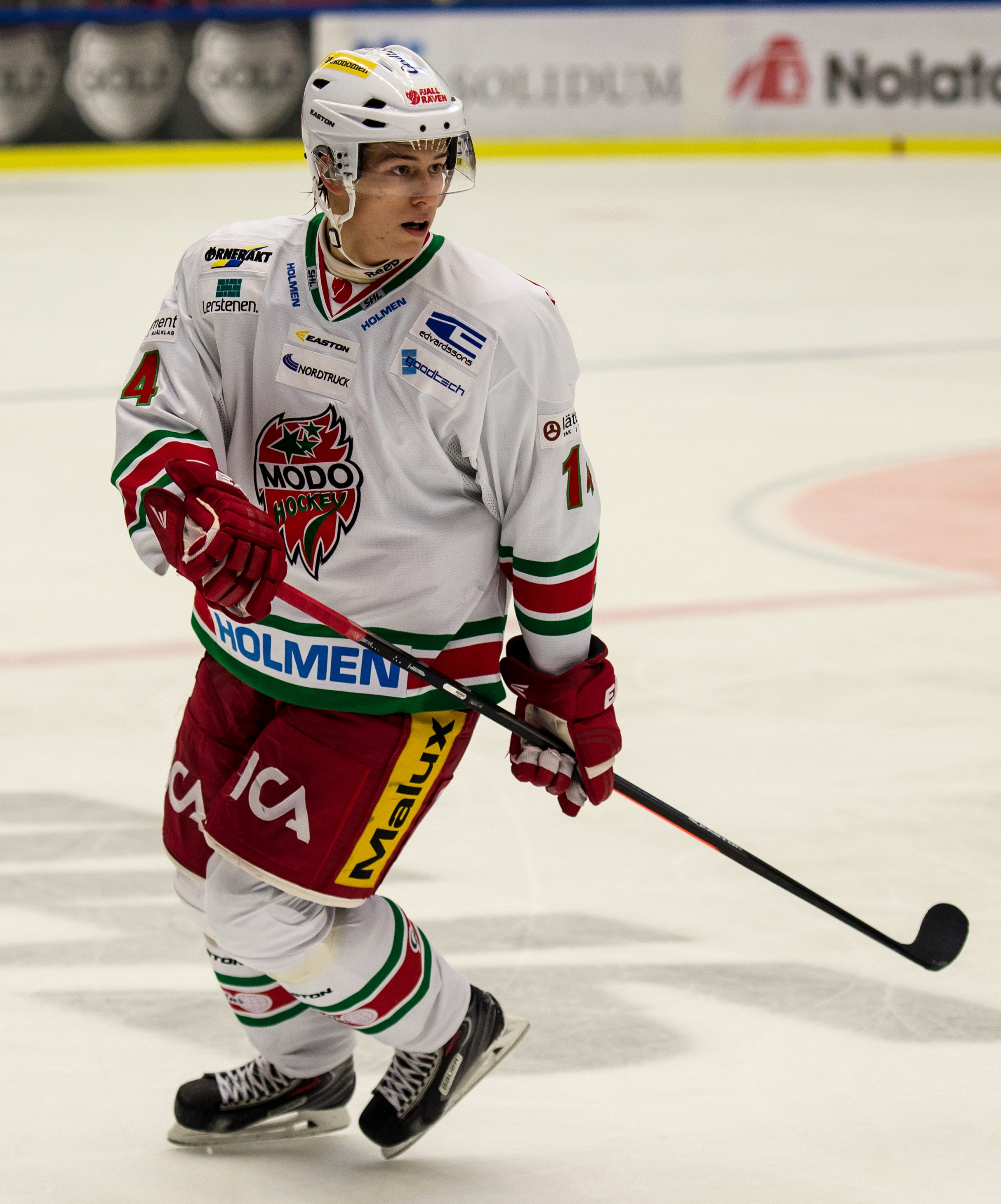 Robert Hägg playing for MODO Hockey in SHL (Swedish Hockey League – Sweden's highest league) vs Örebro HK in Behrn Arena 2013-10-05.